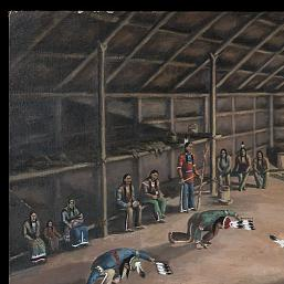 Indians Inside Longhouse Watching Four Men Perform Dance